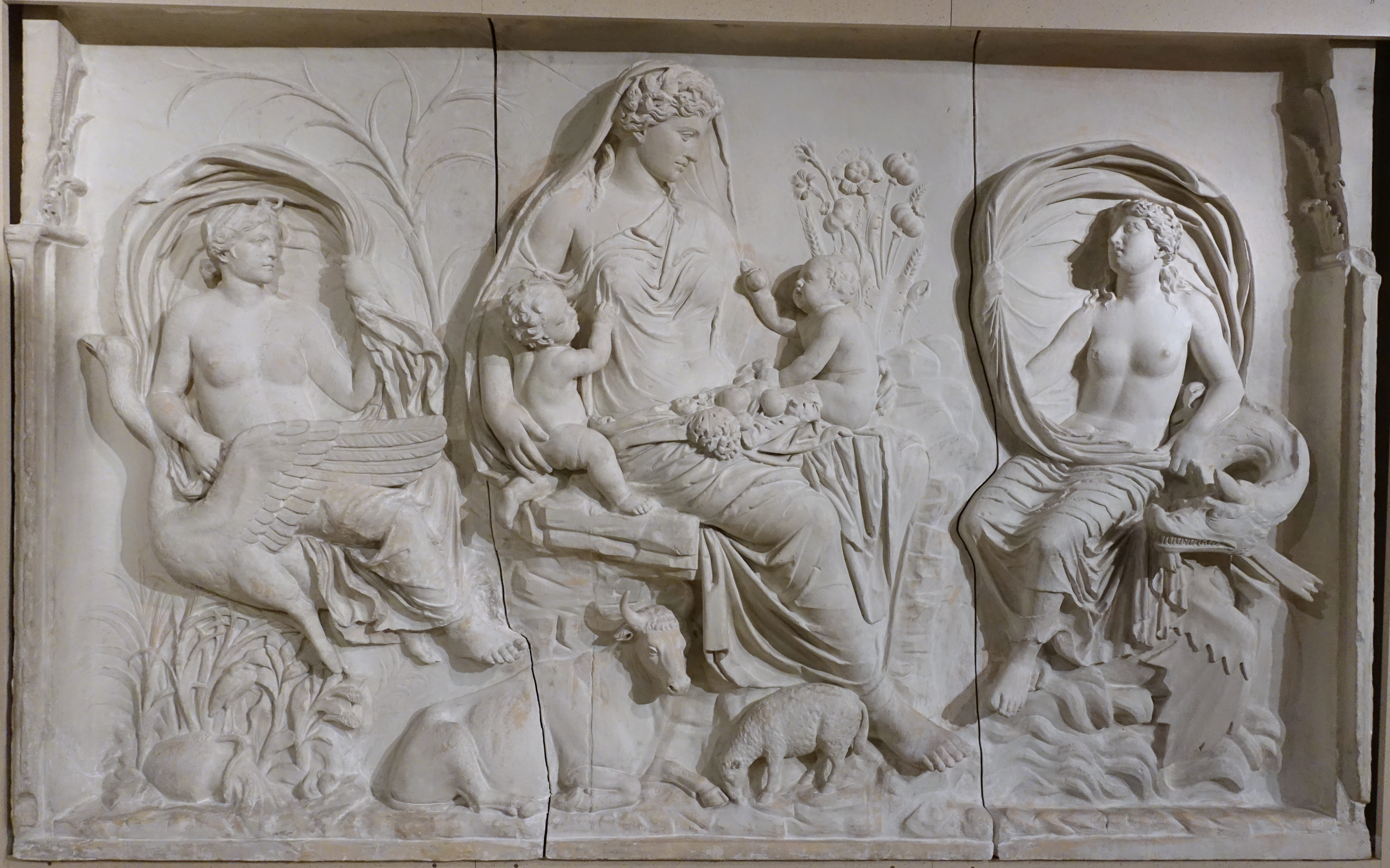 Exhibit in the Spurlock Museum, University of Illinois at Urbana-Champaign - Urbana-Champaign, Illinois, USA. This work is old enough so that it is in the public domain.